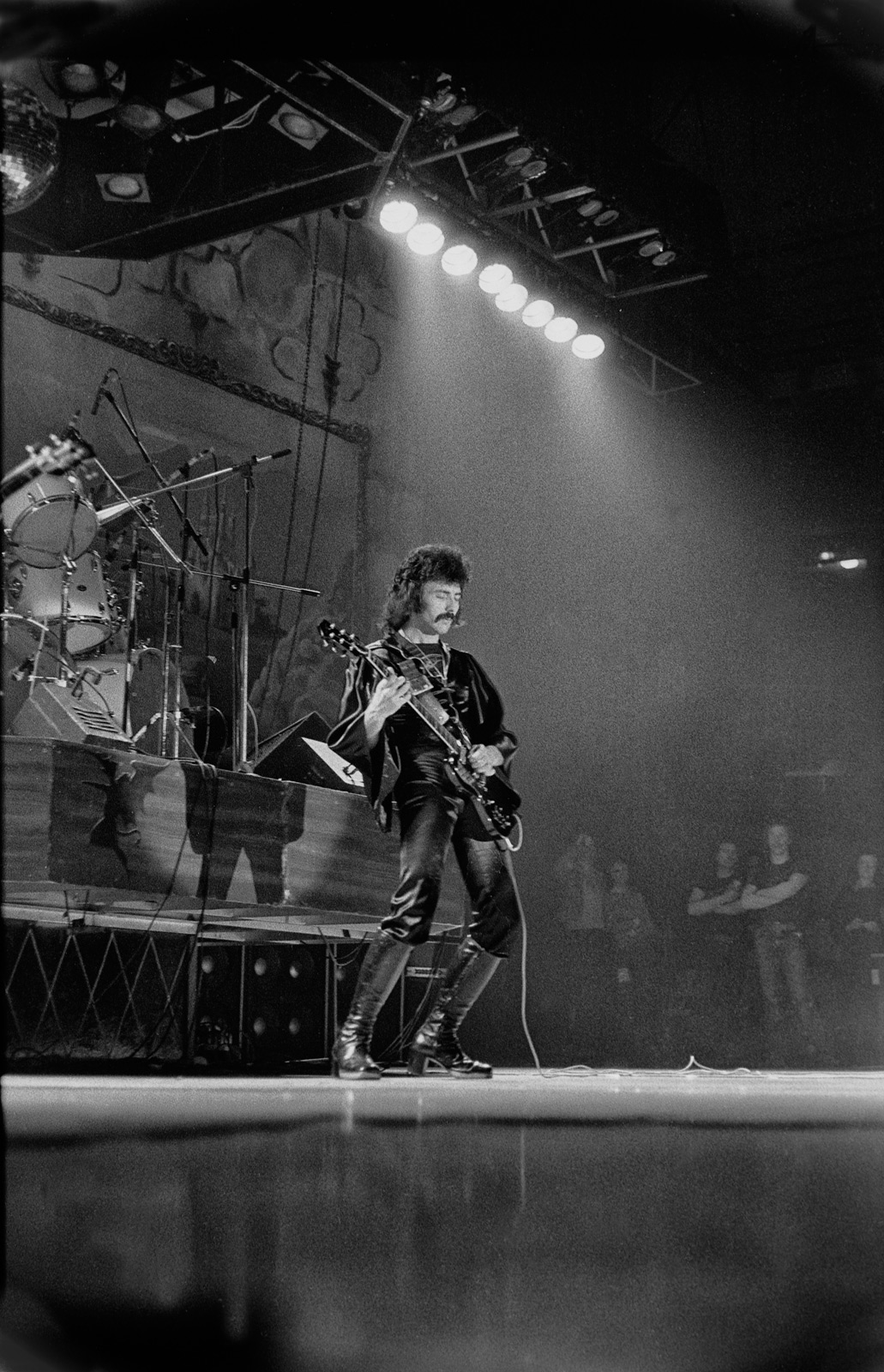 Tony Iommi performing live with Black Sabbath in Cologne during Technical Ecstasy Tour.